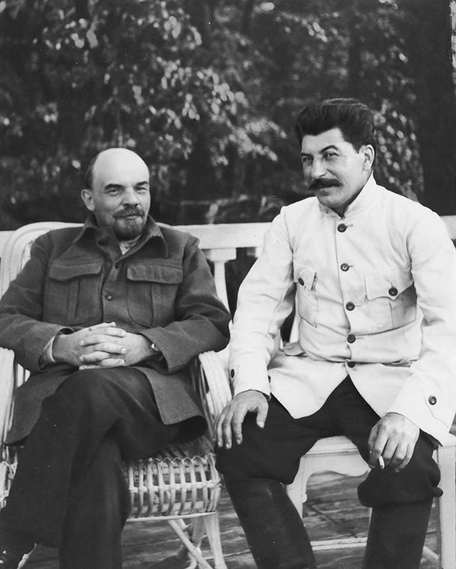 Lenin and Stalin in Gorky. Stalin without pockmarks.